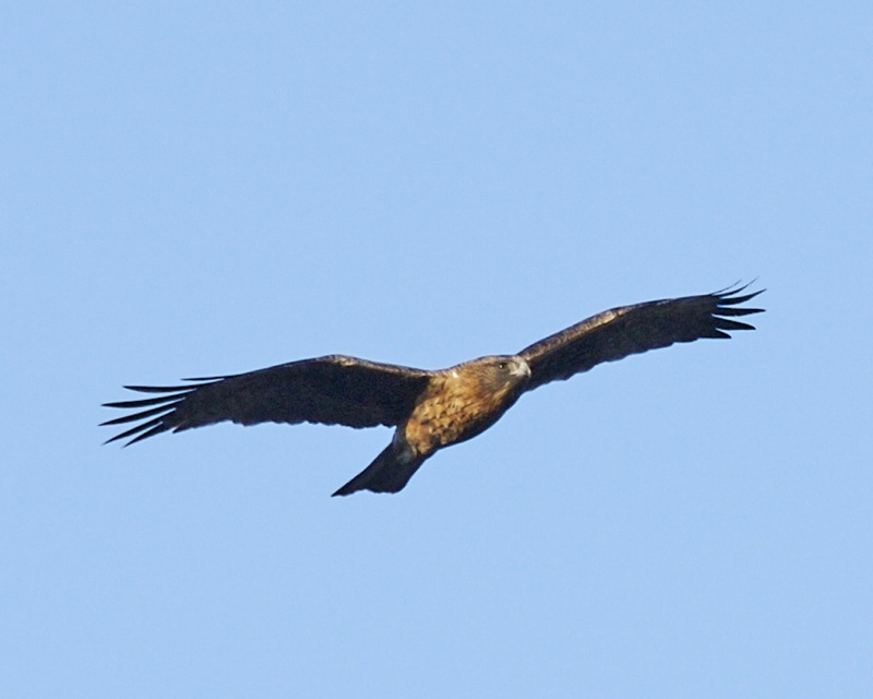 Little Eagle Hieraaetus morphnoides, near You Yang, Victoria, Australia